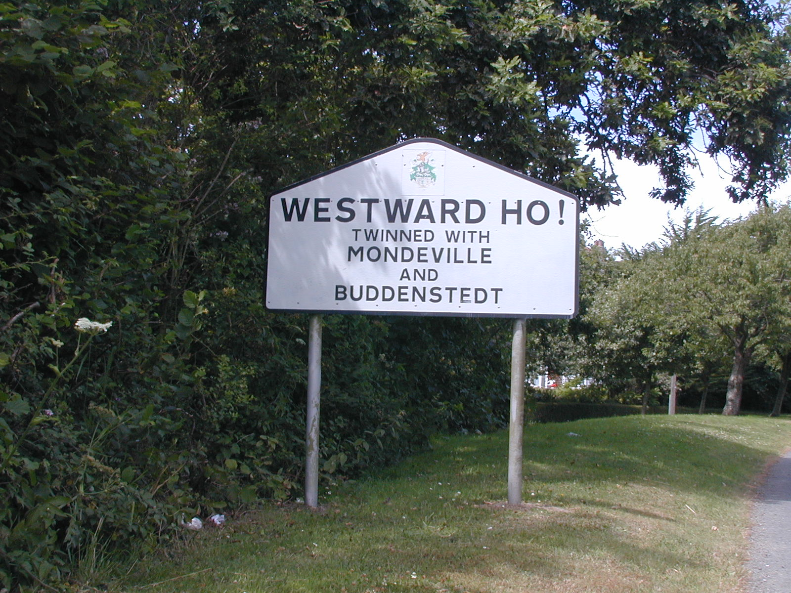 Site into Westward Ho! (Aaron Moreau-Cook